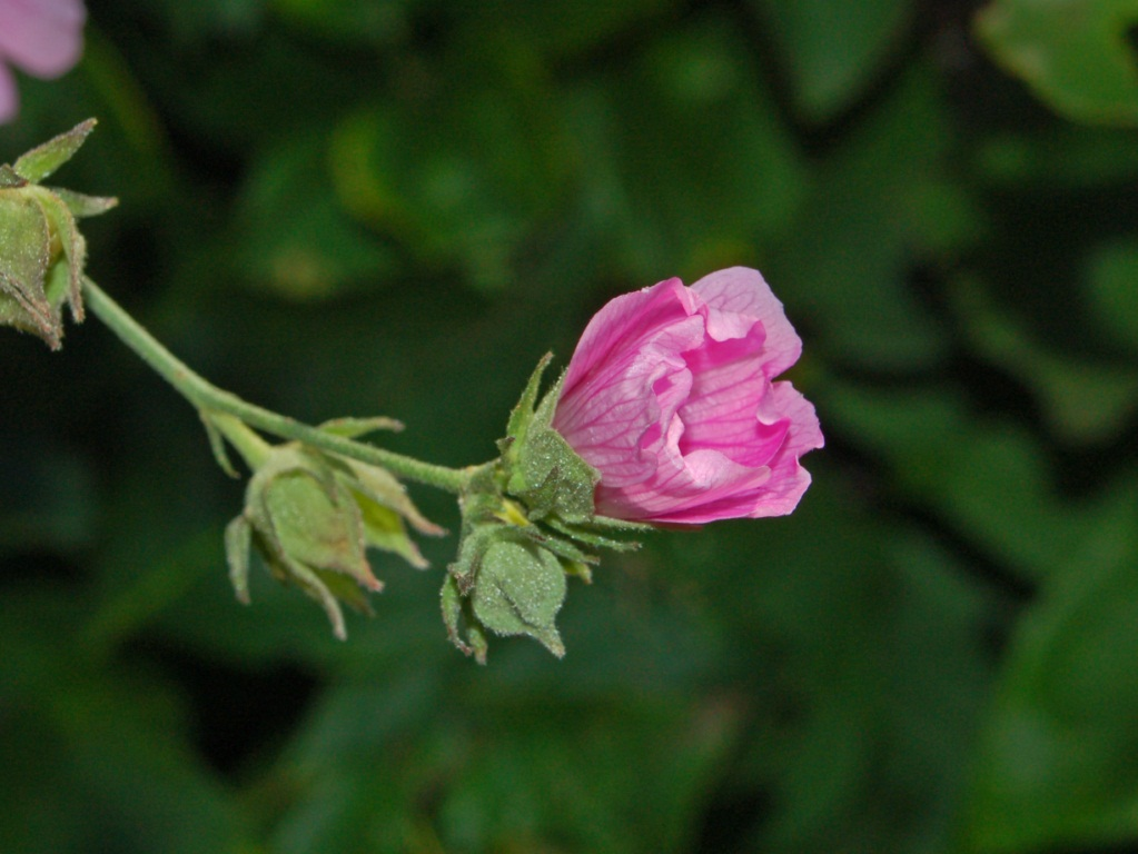 Althaea cannabina - Pian dei Grilli, Genova, Italy